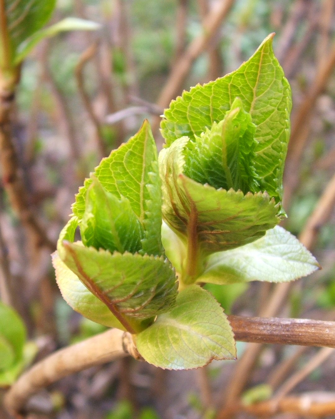 Hydrangea macrophilla bud